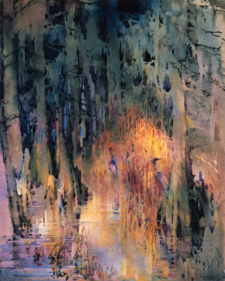 "Bayou Scene," watercolor, by South Carolina artist Alice Ravenel Huger Smith. Private collection.